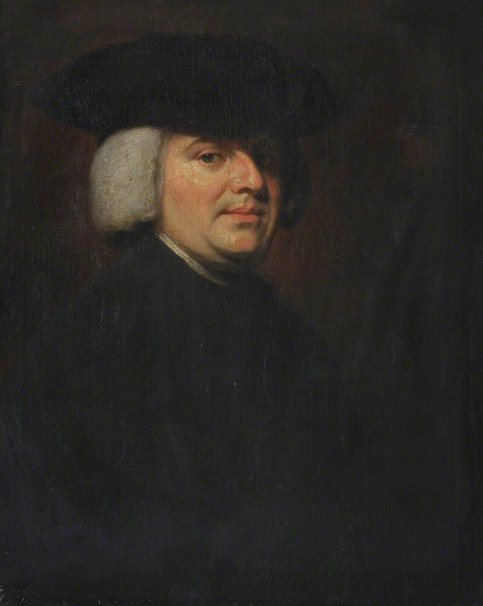 Hall portrait of William Paley, Christ's College, Cambridge